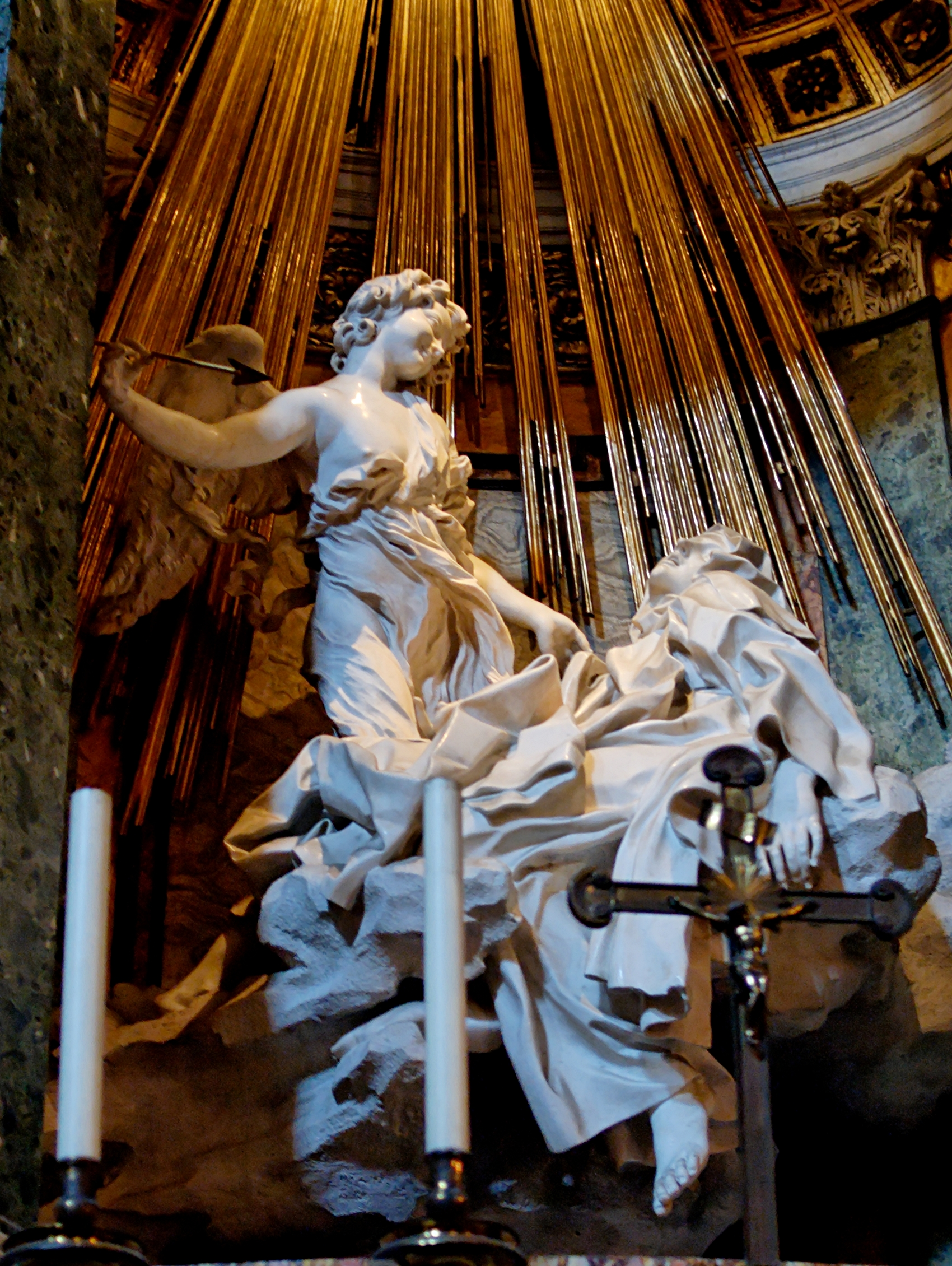 The Ecstasy of St. Theresa by Gianlorenzo Bernini (1652). Left transept of Santa Maria della Vittoria (17th century) in Rome.